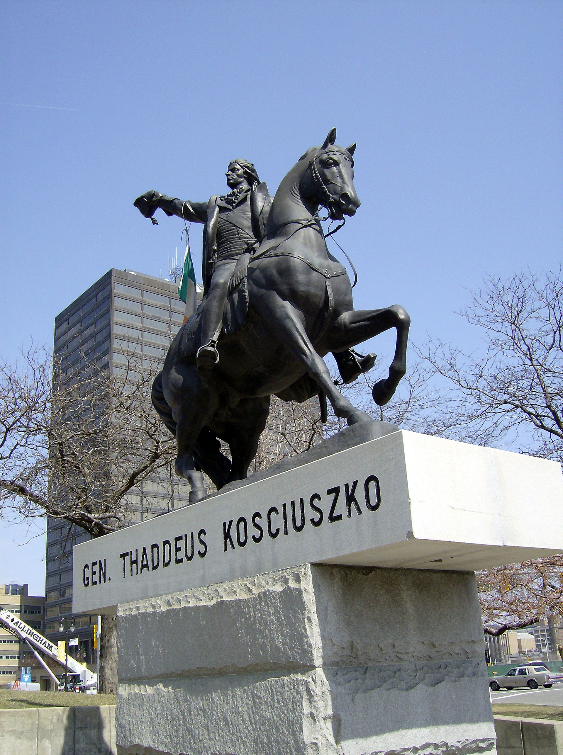 Thaddeus Kosciuszko on horse back in Detroit. This is a replica of a statue by Leonard Marconi. Leonard Marconi died in 1899 so this statue is in the public domain.